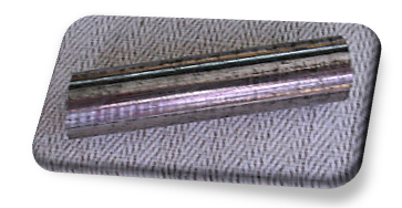 Bismut (Bismuth)